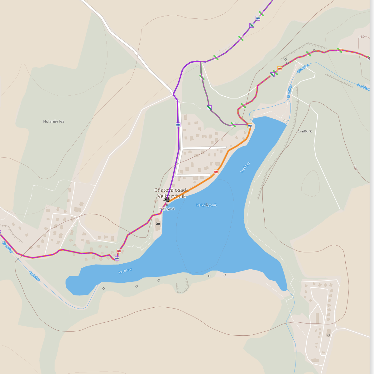 Velký rybník near Kutná Hora 1. Schema. Kutná Hora District, the Czech Republic.